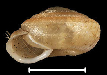 Photo of an apertural view of the shell of Endothyrella plectostoma. Locality: UMZC 102155 (syntype, specimen figured by Gude 1897). Scale bar is 5 mm.